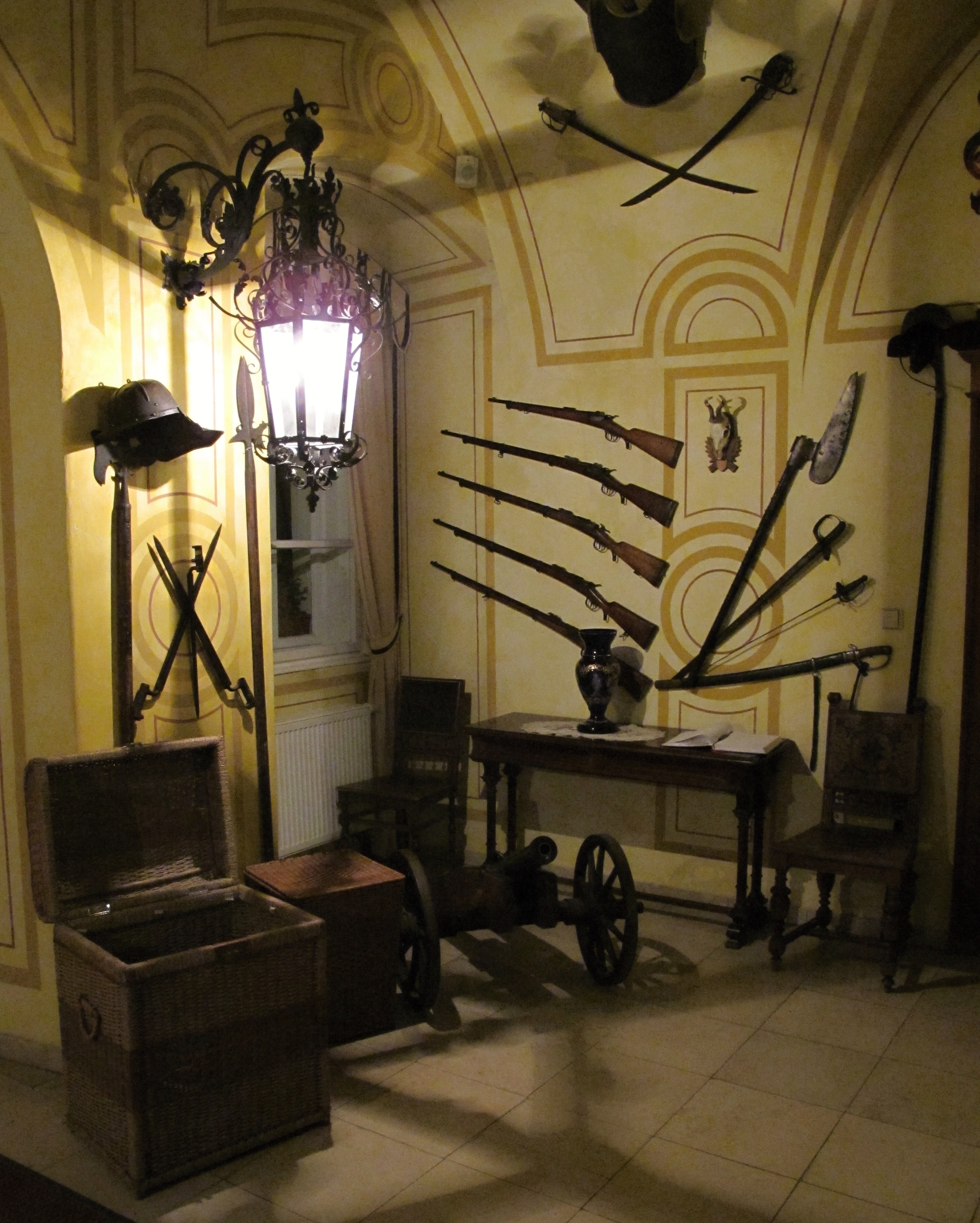 interior of the Dětenice Castle, Jičín District